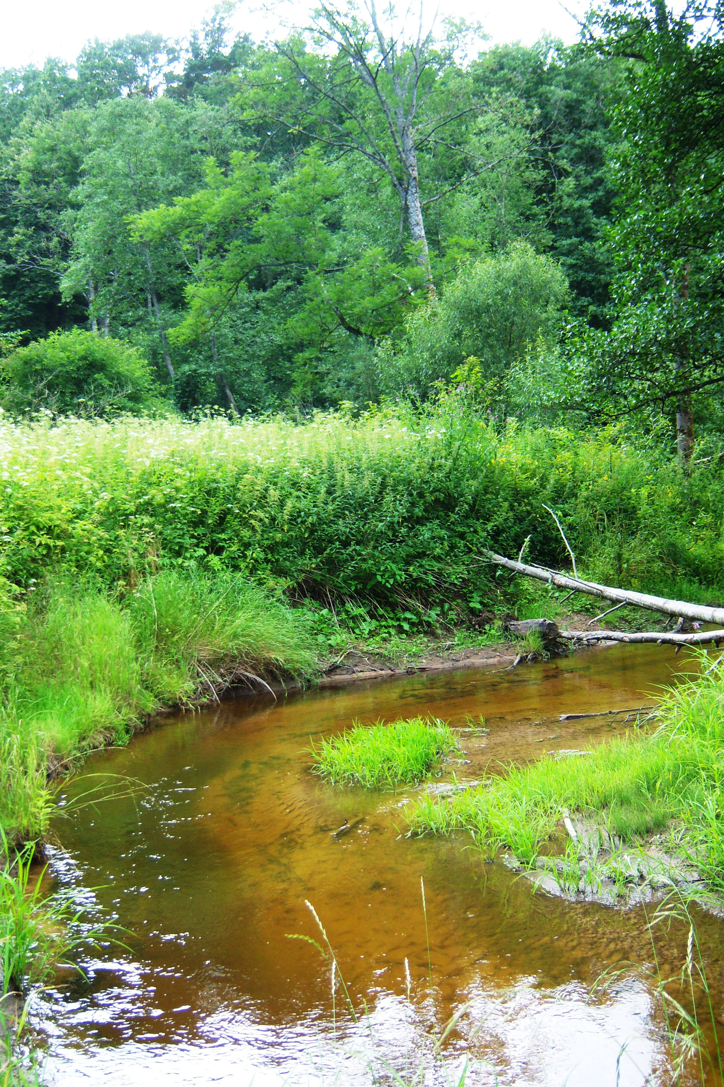 Ova River by Altoniškiai, Kaunas district. Lithuania